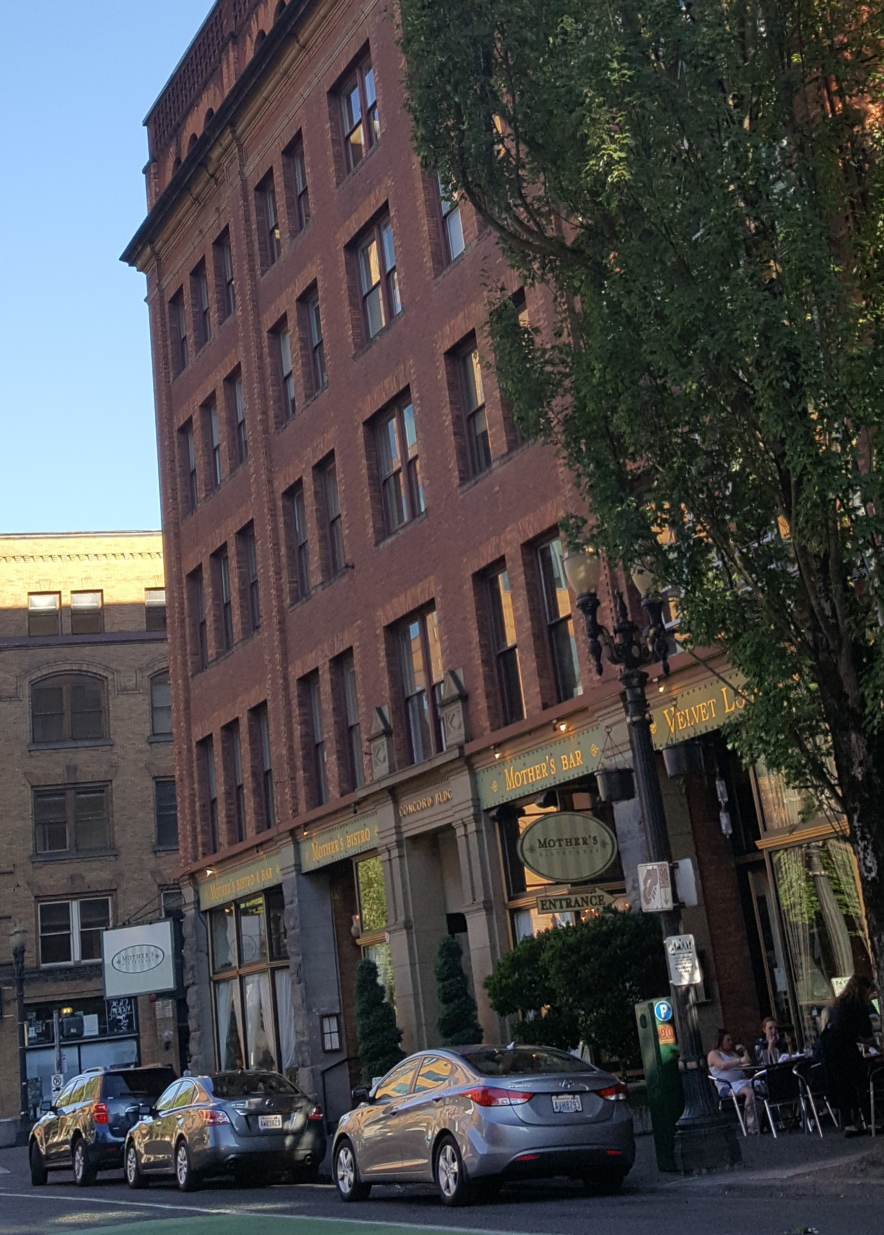 Mother's, Portland, Oregon, 2016